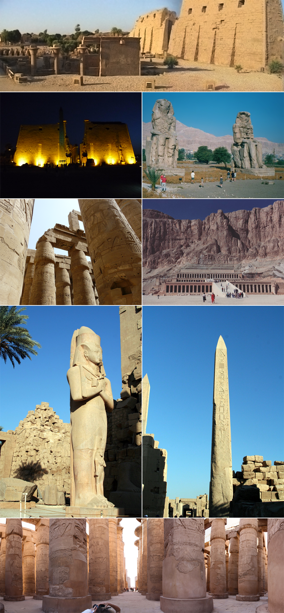 Collage of Luxor File:Luxor temple39.JPG ,File:SFEC EGYPT KARNAK 2006-008.JPG ,File:Karnak-Hypostyle3.jpg ,File:Karnakpanorama.jpg ,File:Parvis Karnak.jpg ,File:SFEC EGYPT KARNAK 2006-002.JPG ,File:Egypt.ColossiMemnon.03.jpg ,File:Hatshepsut Temple.jpg . Collection created by AhmadPontyMageed (old version)